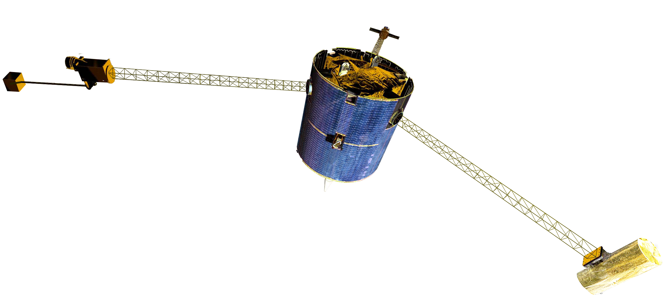 A transparent image of the Lunar Prospector spacecraft, based on the official image in 1999.